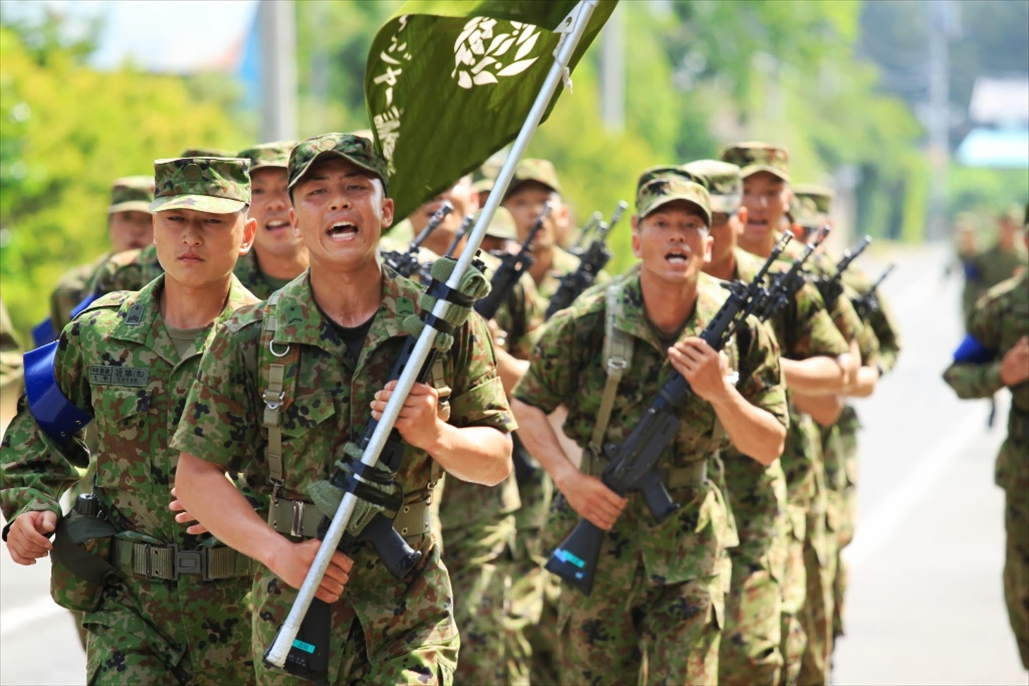 Title 25.06.10 ４４ｉ・１０マイル走IMG_6753.JPG Album 教育訓練等 レンジャー教育・体力調整（第４４普通科連隊・福島）